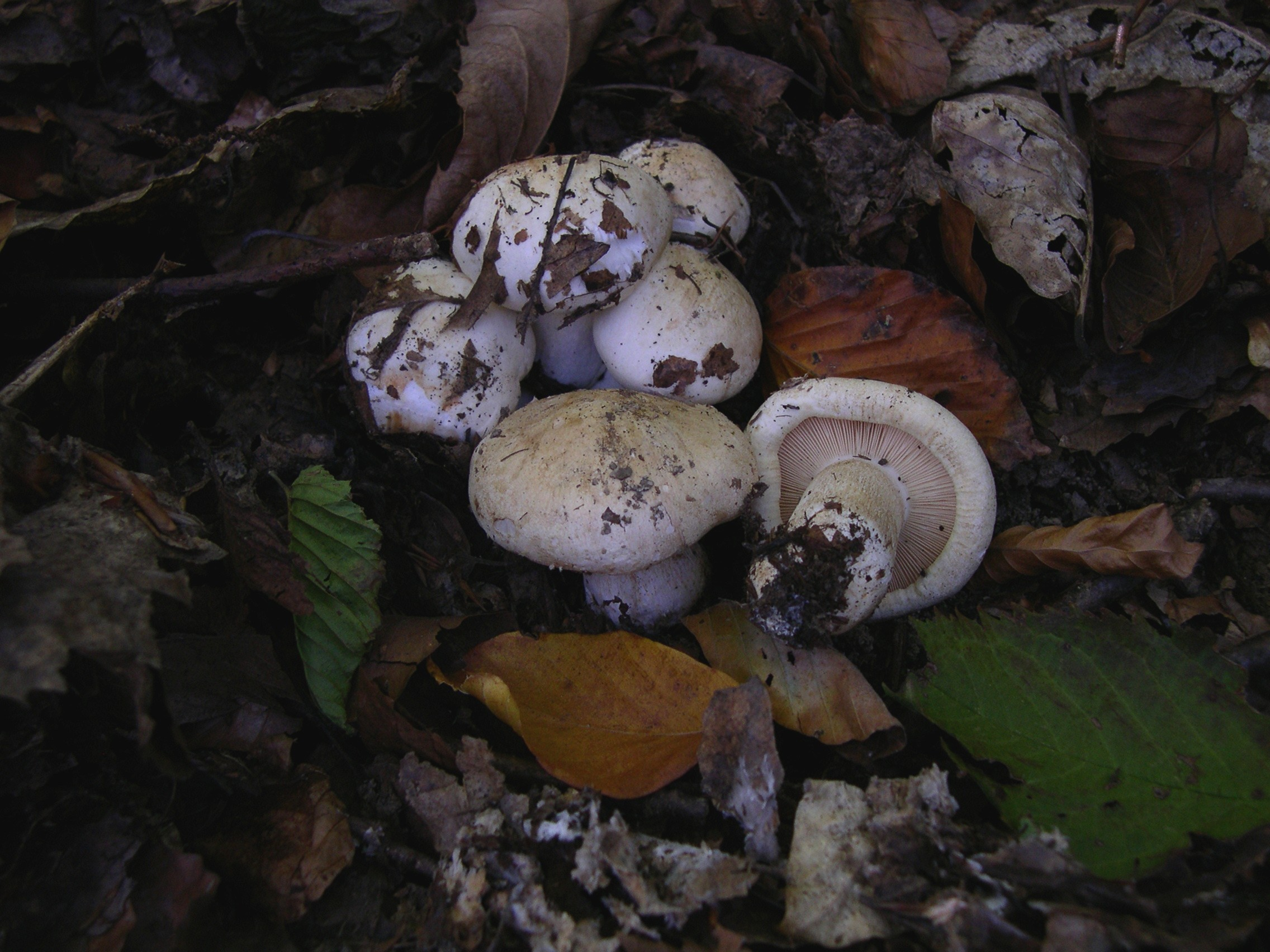 Group of Tricholoma acerbum